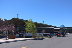 Amtrak Thruway Motorcoach buses at Sacramento Valley Station in April 2013